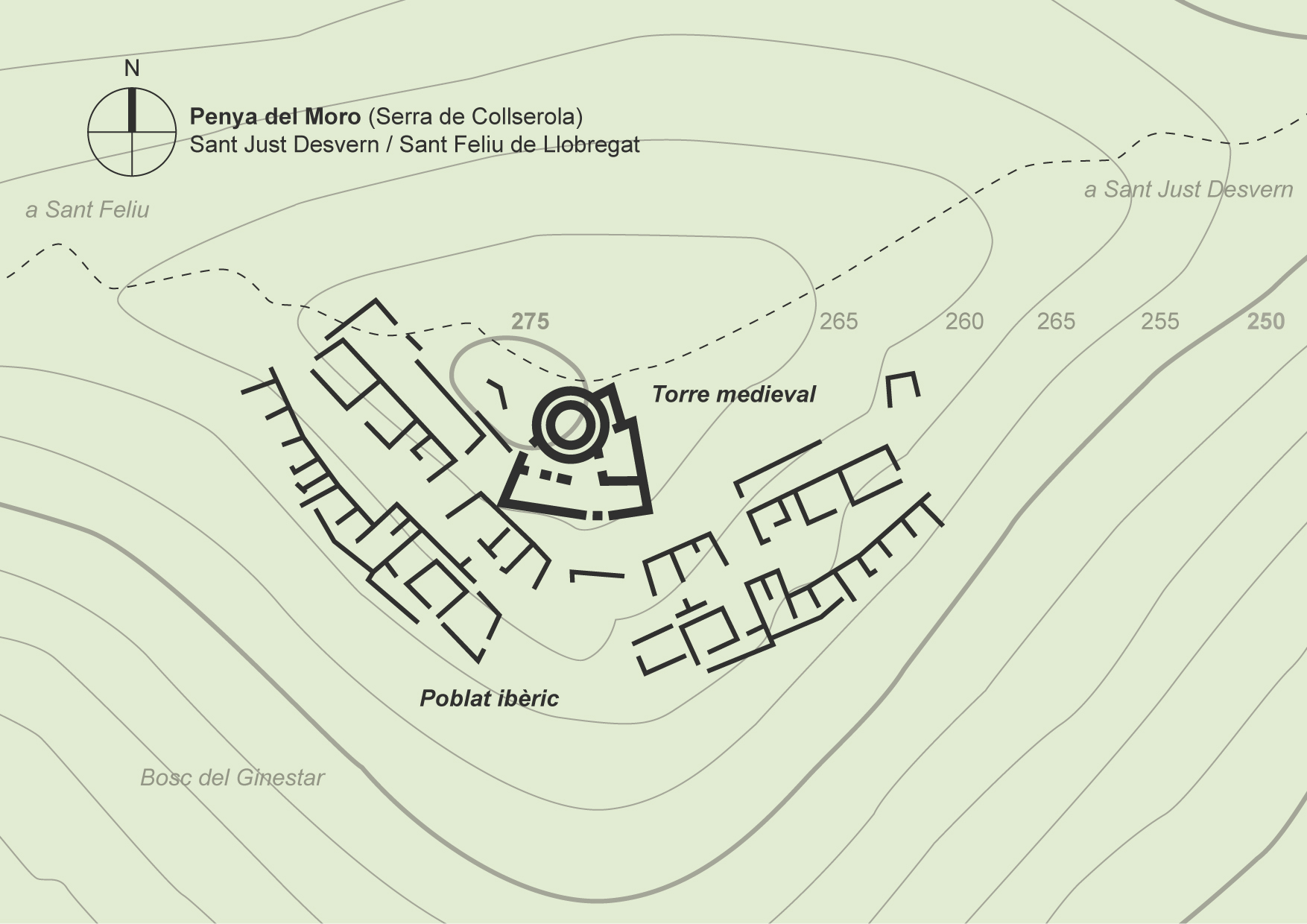 Map of the Penya del Moro mountain in Sant Just Desvern (Catalonia, Spain).